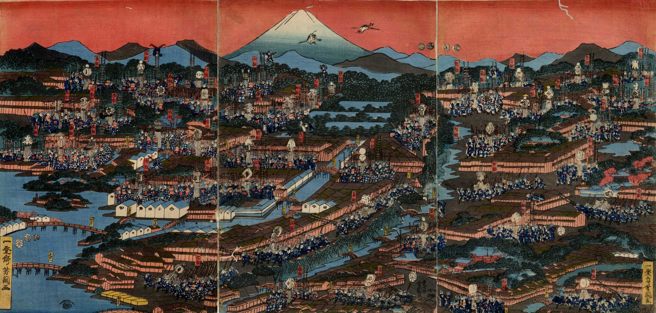 Woodblock print by Utagawa Yoshitsuna, depicting the civil firebrigades of Edo with their Matoi, published by Tsutaya Kichizō.